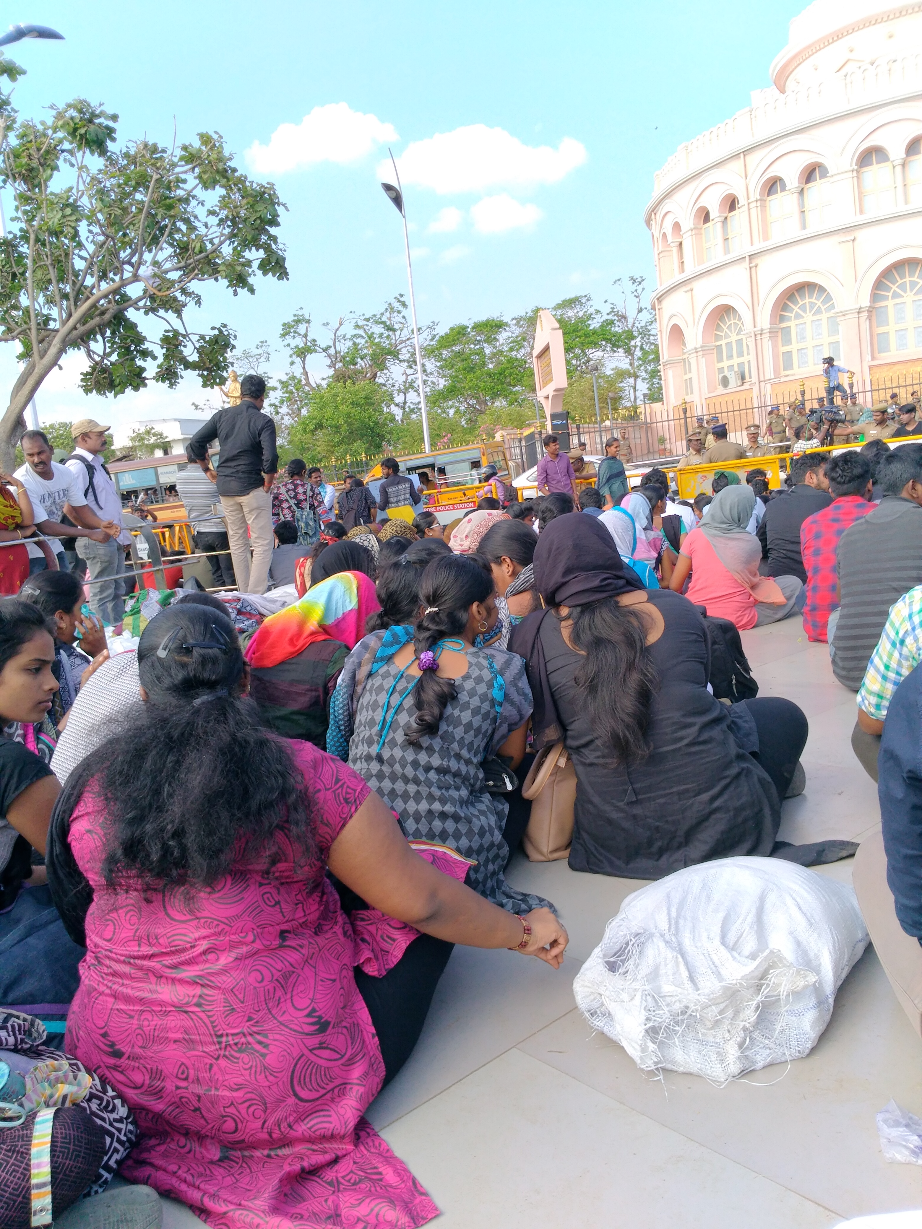 Girls are protesting against supreme court in front of vivekanandha house chennai, more than 18 thousand students gathered there on 19th jan 2017